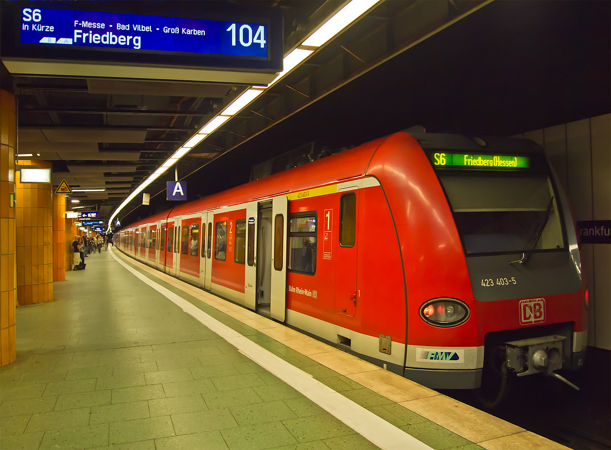 S-Bahn type DBAG Class 423 at the station Frankfurt am Main Hauptbahnhof (Main Station), linie S6 to Friedberg